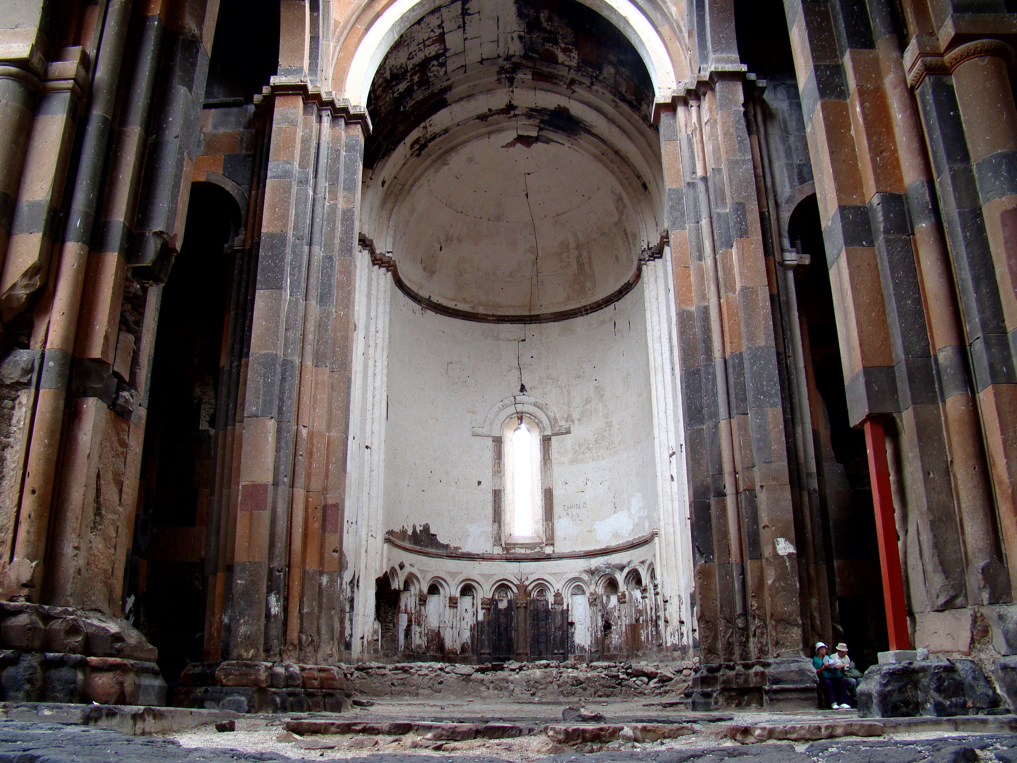 Two people sitting inside the Cathedral of Ani in Ani, Turkey, just a hundred metres from the border of Armenia. Large parts of the roof have fallen down, allowing daylight to find its way into the building.